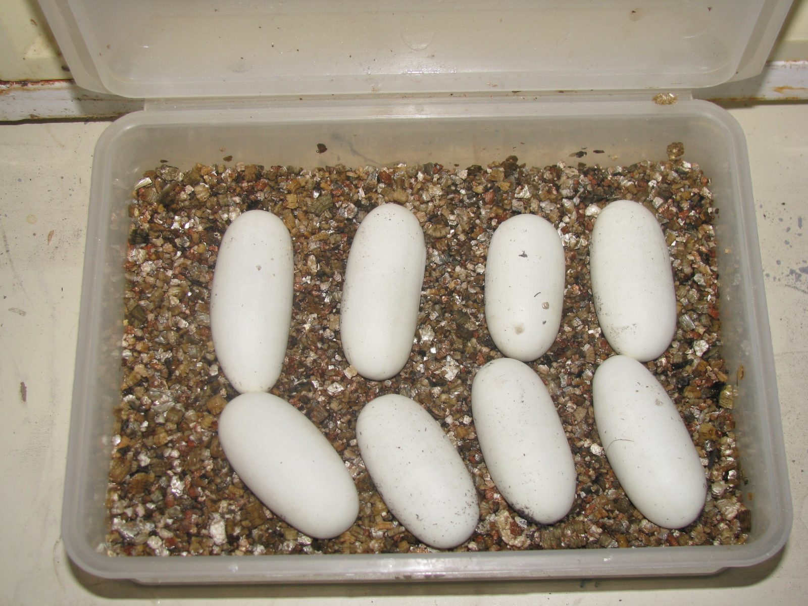 Eggs from a modern Sinoloan milk snake (Lampropeltis triangulum sinaloae)